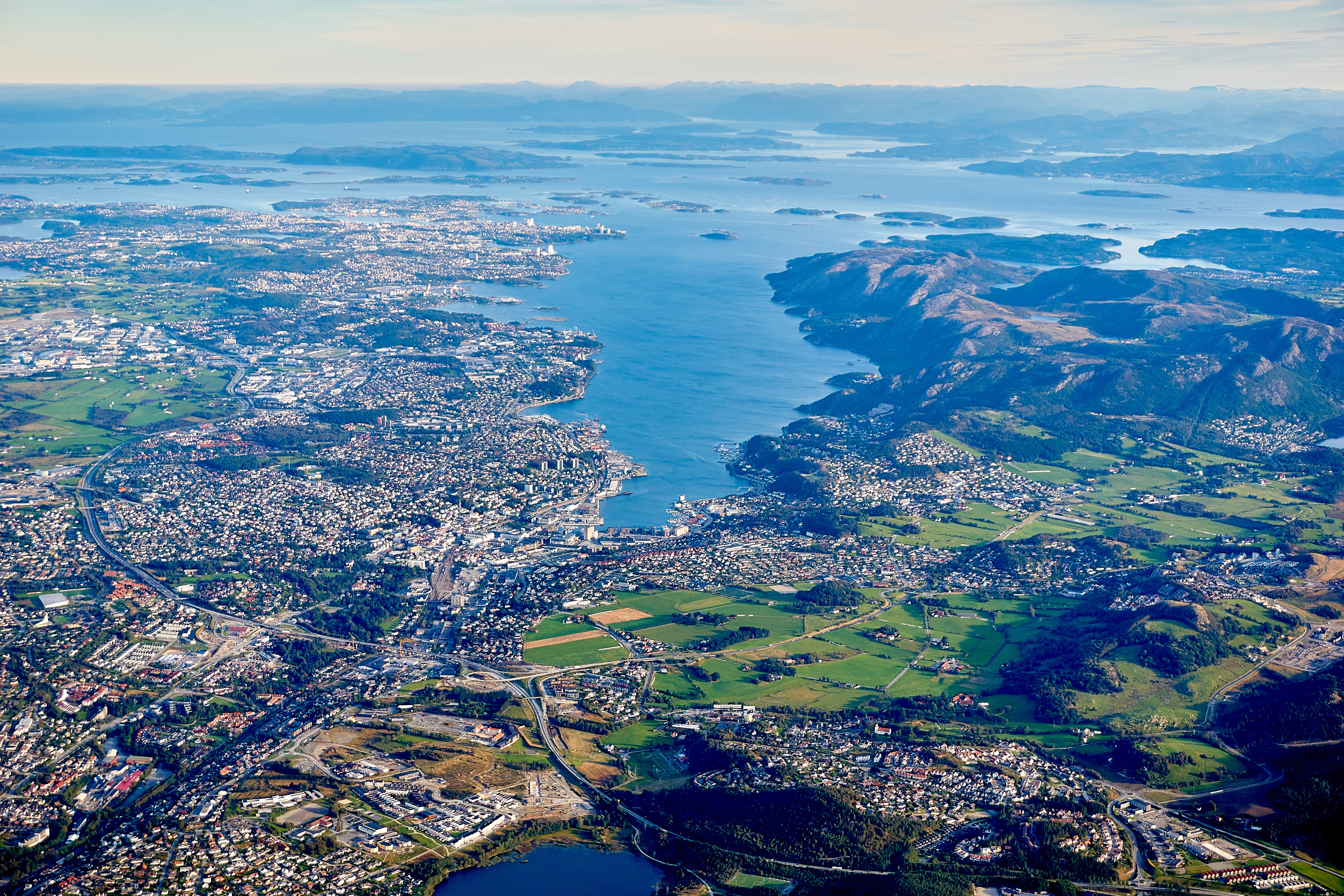 Photo by Alexey Topolyanskiy on Unsplash